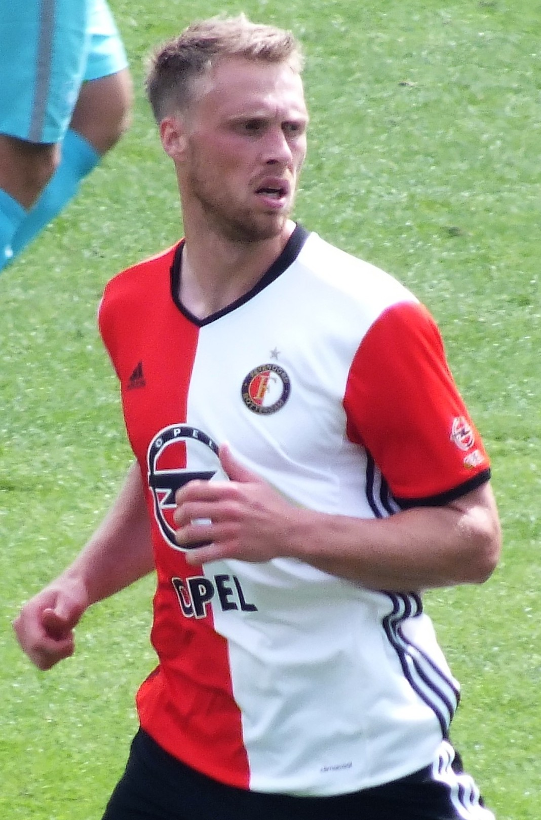 Nicolai Jørgensen playing a home game for Feyenoord.